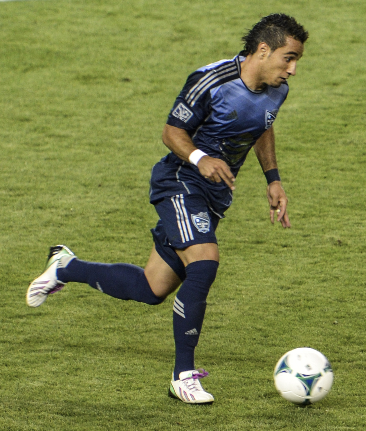 Camilo Sanvezzo in the 2013 MLS All Star game. 31JUL2013 at Sporting Park, Kansas City, Kansas.